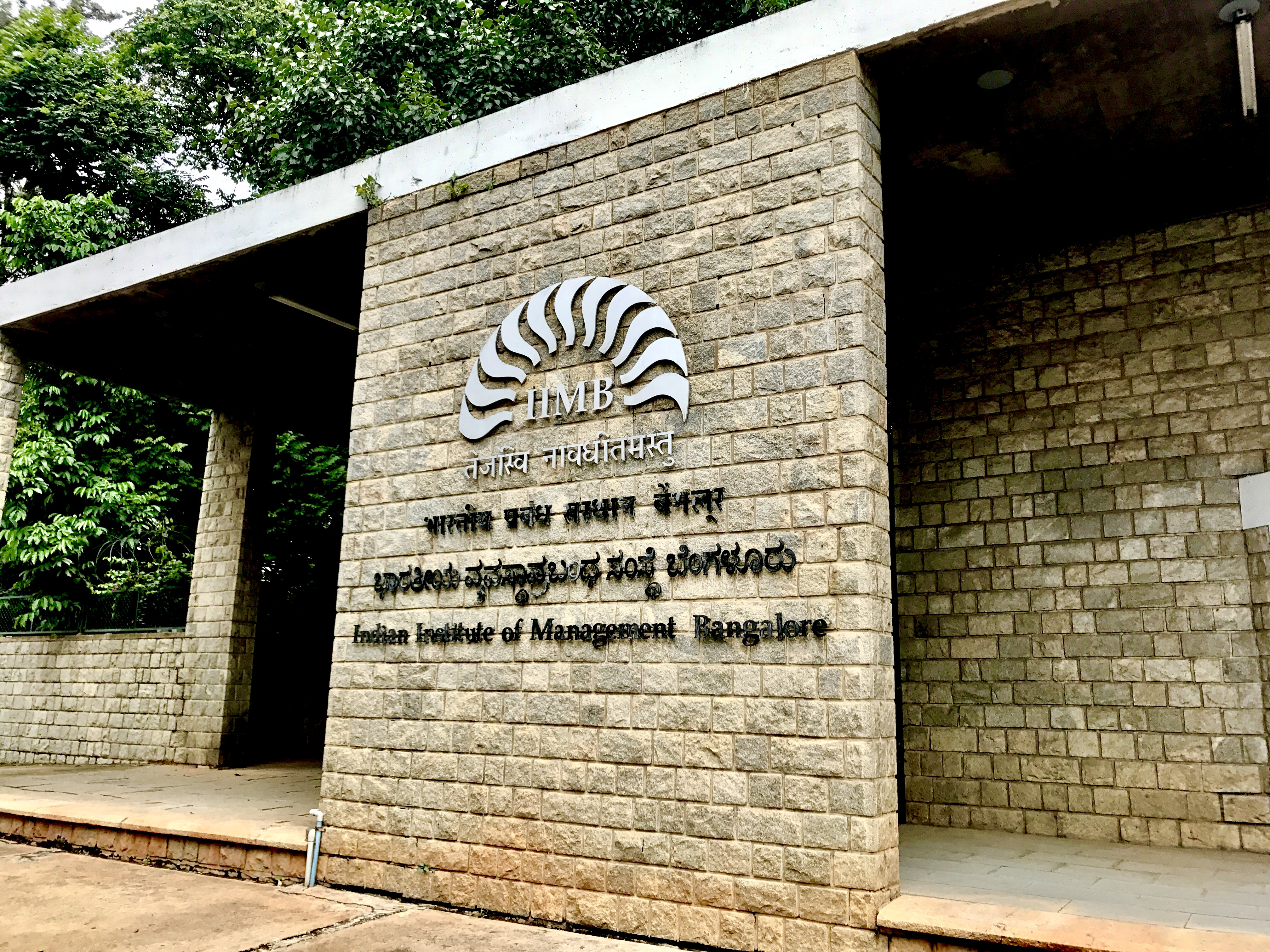 Pylon of IIM Banglore